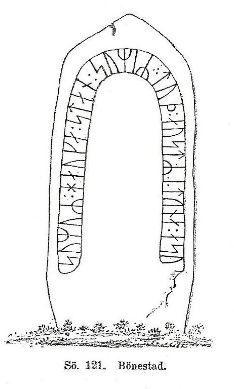 image of runestone